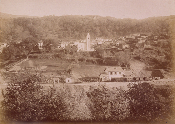 Train in the Belvì-Aritzo station, along the Isili-Sorgono railway in Sardinia, Italy, in 1888